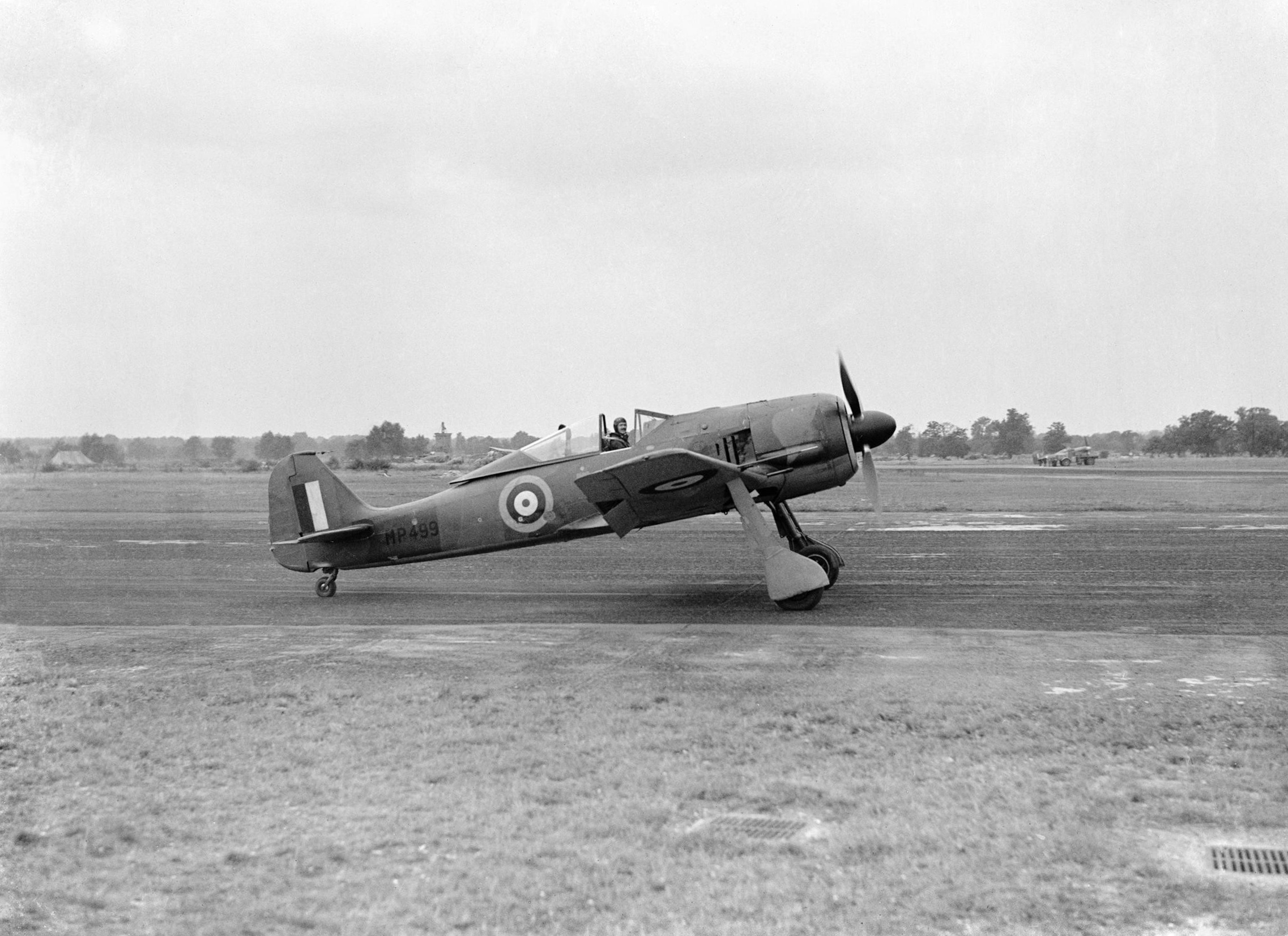 A captured Focke Wulf Fw 190A-3 at the Royal Aircraft Establishment, Farnborough, with the RAE's chief test pilot, Wing Commander H J "Willie" Wilson at the controls, August 1942. Captured Focke Wulf Fw 190A-3, MP499, taxying at the Royal Aircraft Establishment, Farnborough, Hampshire, with the RAE's chief test pilot, Wing Commander H J "Willie" Wilson at the controls. Although formally transferred to the Air Fighting Development Unit in July 1942, MP499, was retained by the RAE, undergoing extensive evaluation by flying and technical staff, including a programme of trials with contemporary Allied fighters.